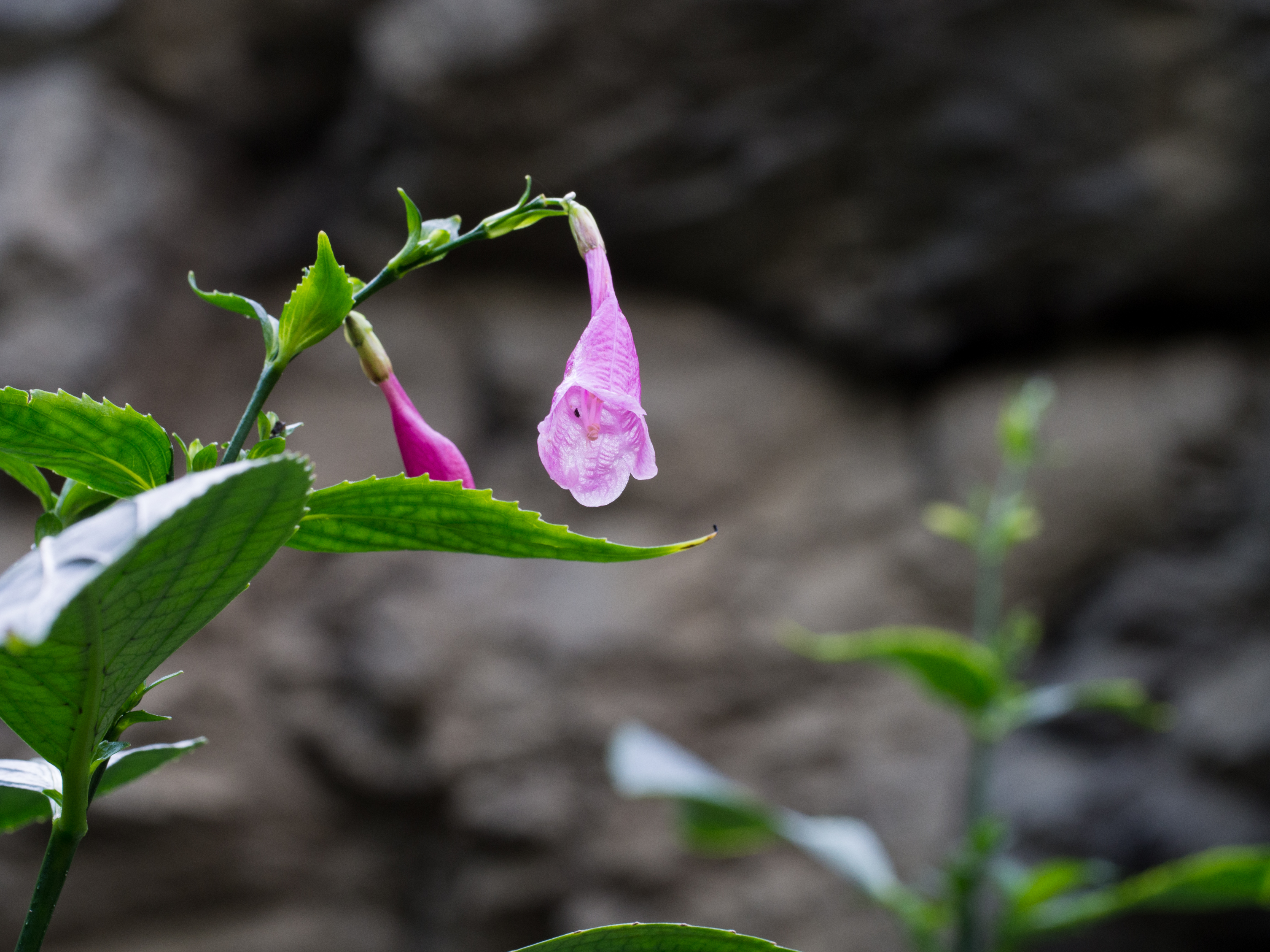 Chinese rain bell (Strobilanthes cusia) at Brooklyn Botanic Garden.